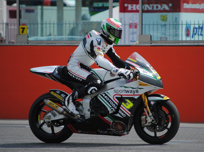 Simone Corsi 2010 Misano